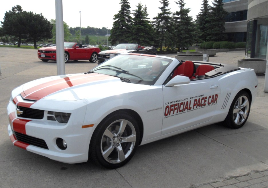 Chevrolet Official Pace Car.